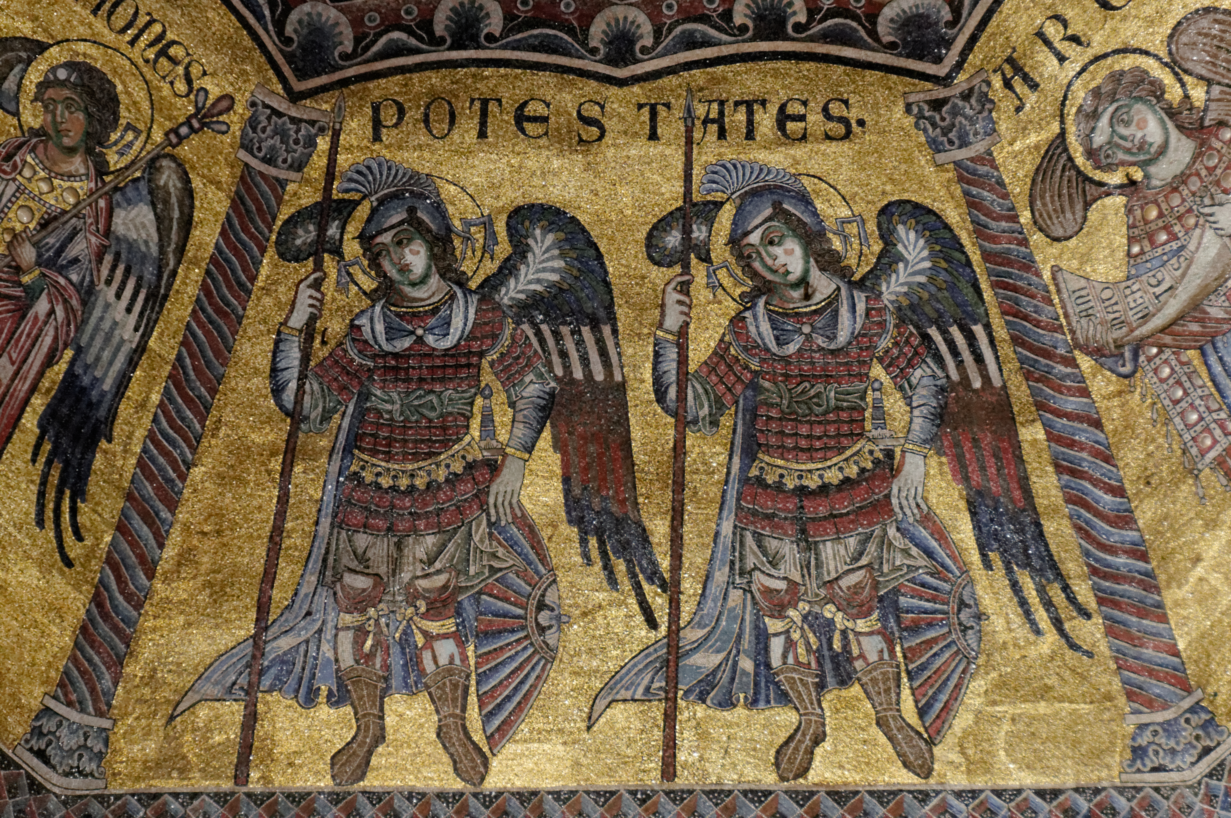 Mosaic ceiling: angelic hierarchy: the puissances.